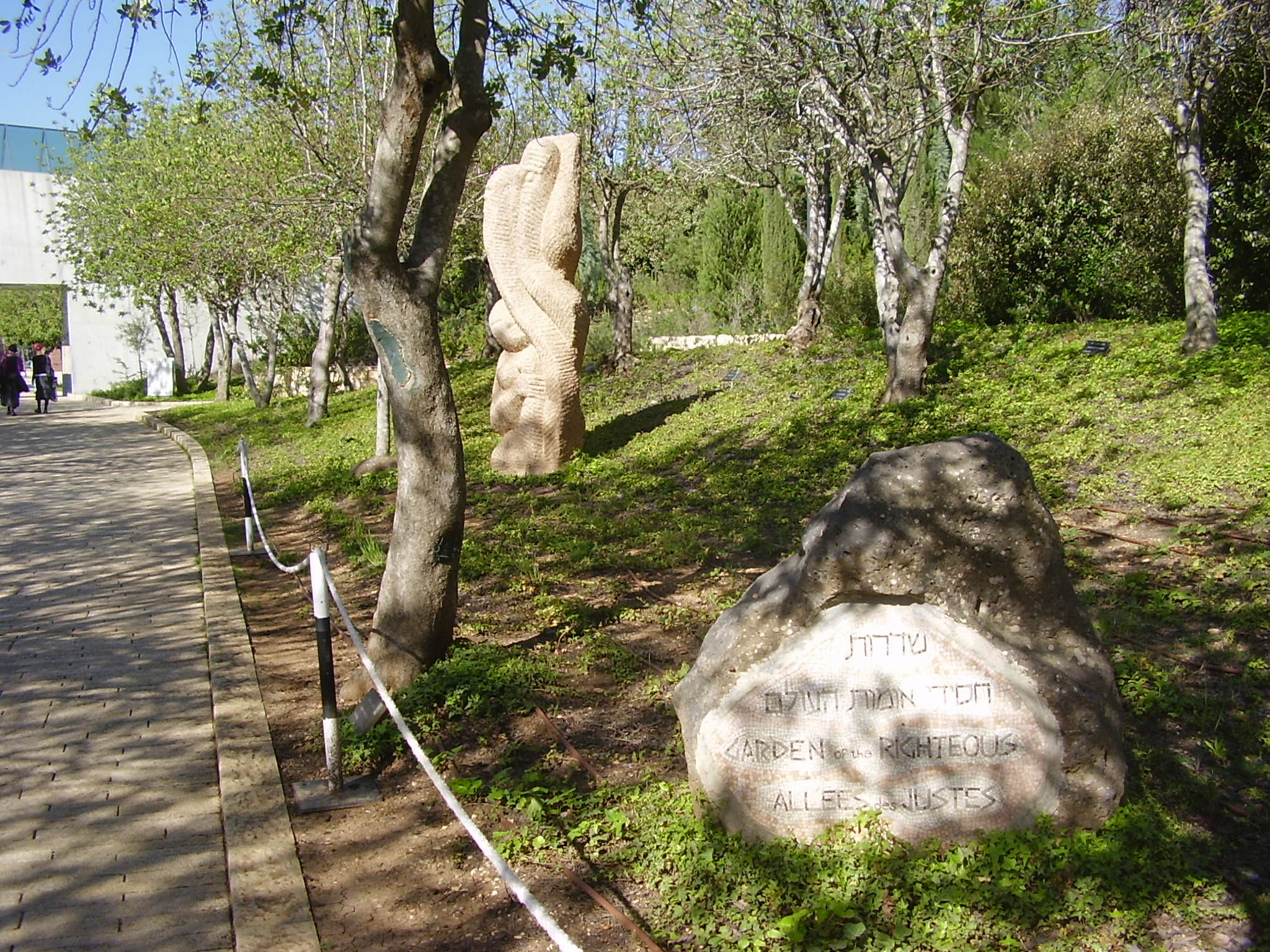 the righteous among the nations avenue in yad vashem